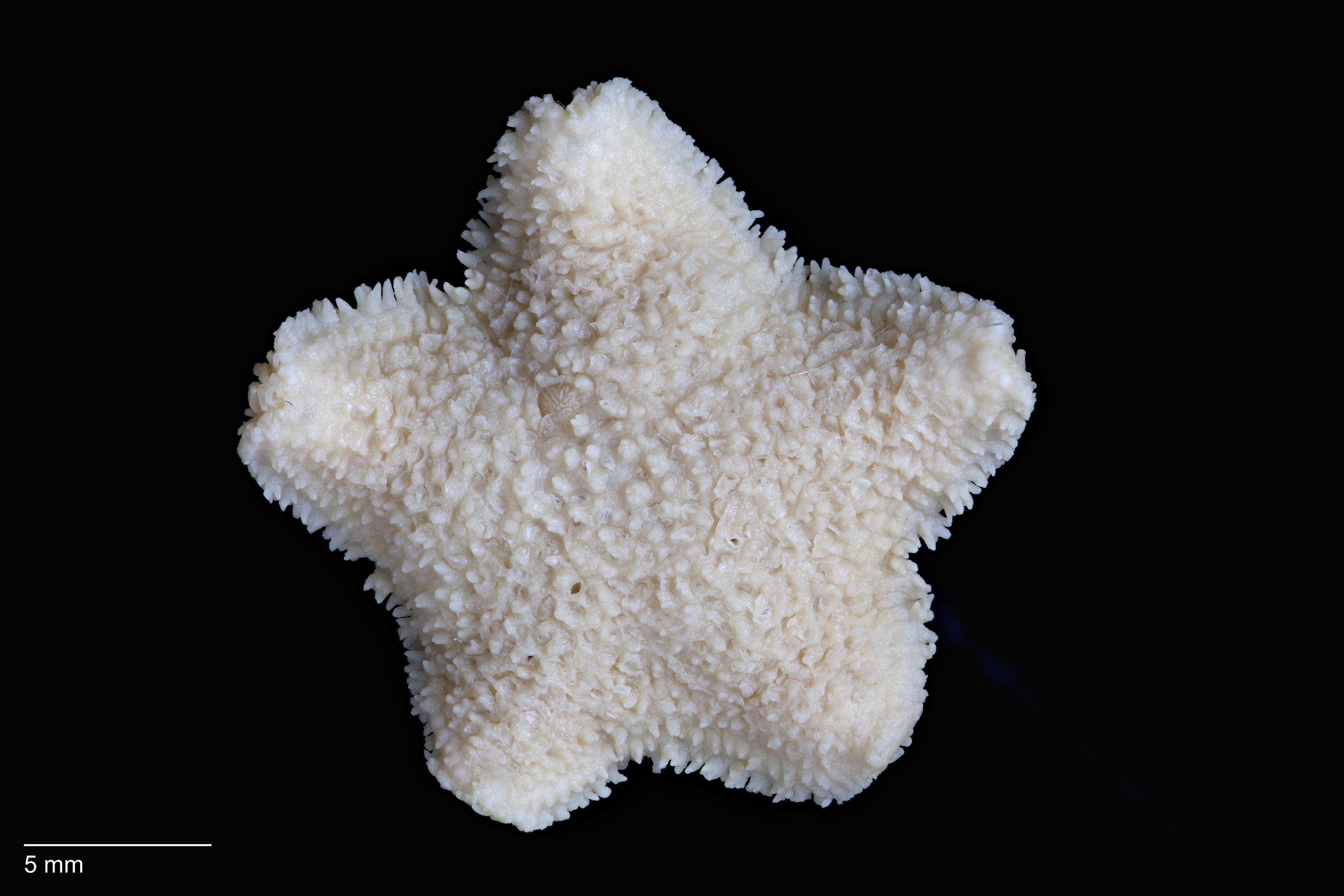 Patiriella littoralis, seastar. Spirit specimen. Registration no. F 93735. Photographer: Blair Patullo Source: Museums Victoria